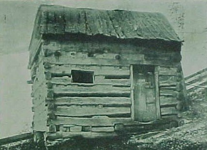 Image of John McMillan's Log College, the forerunner to Washington & Jefferson College.